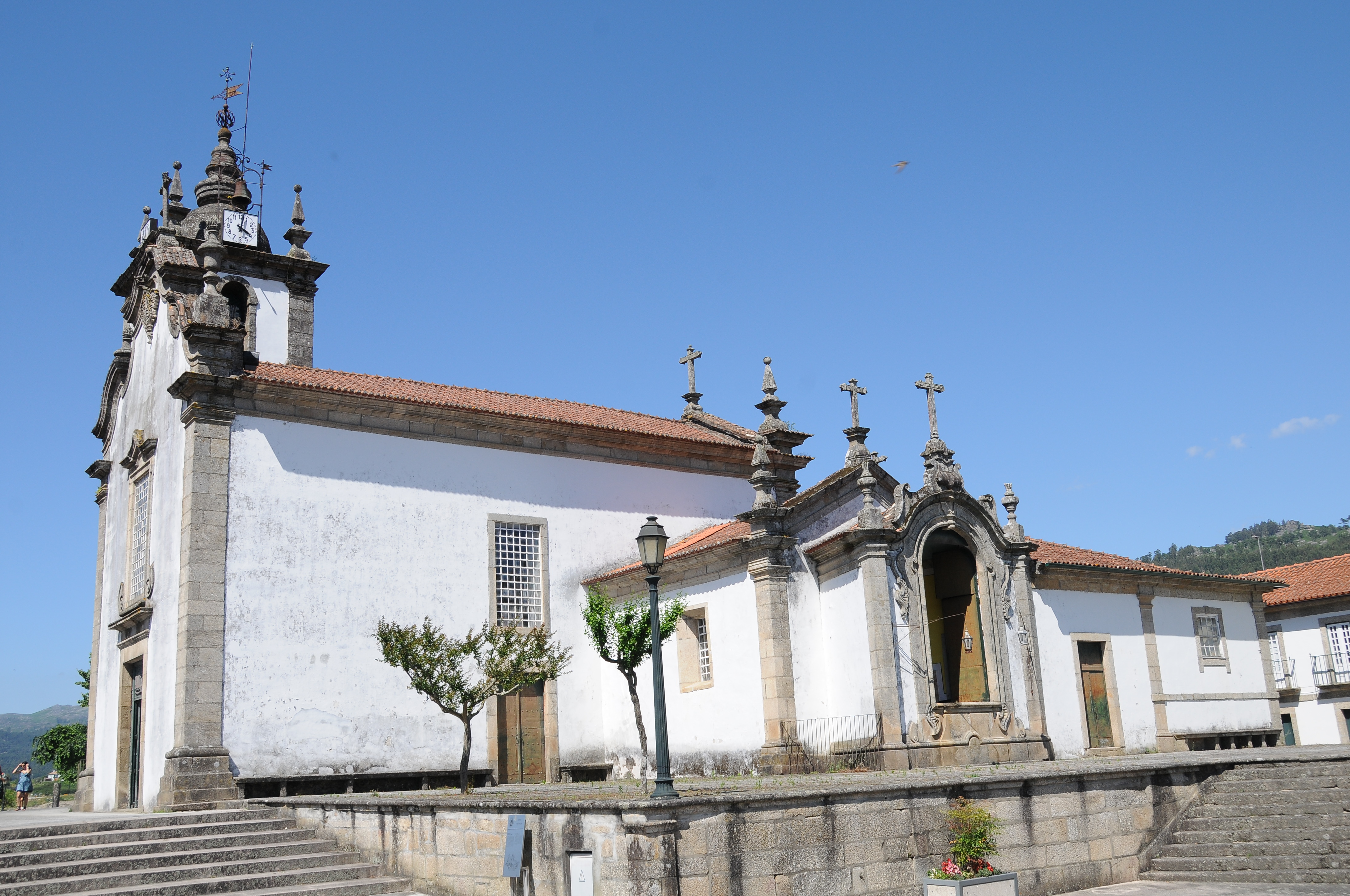 Matriz Church in Arcos de Valdevez, Portugal.